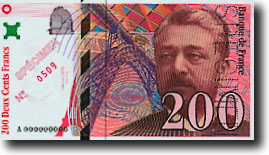 200 francs